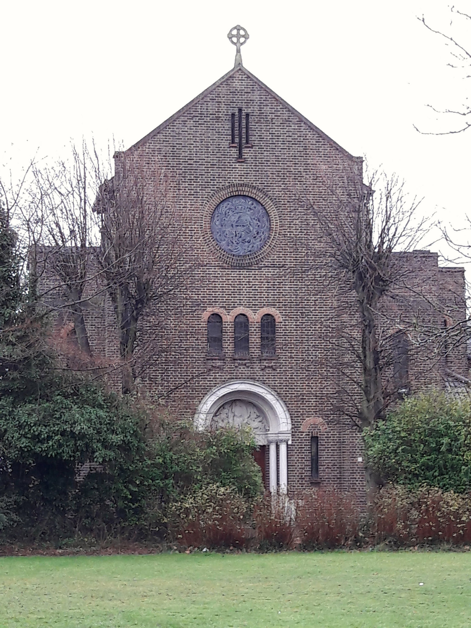 St Lawrence the Deacon Church as viewed from park, Feltham